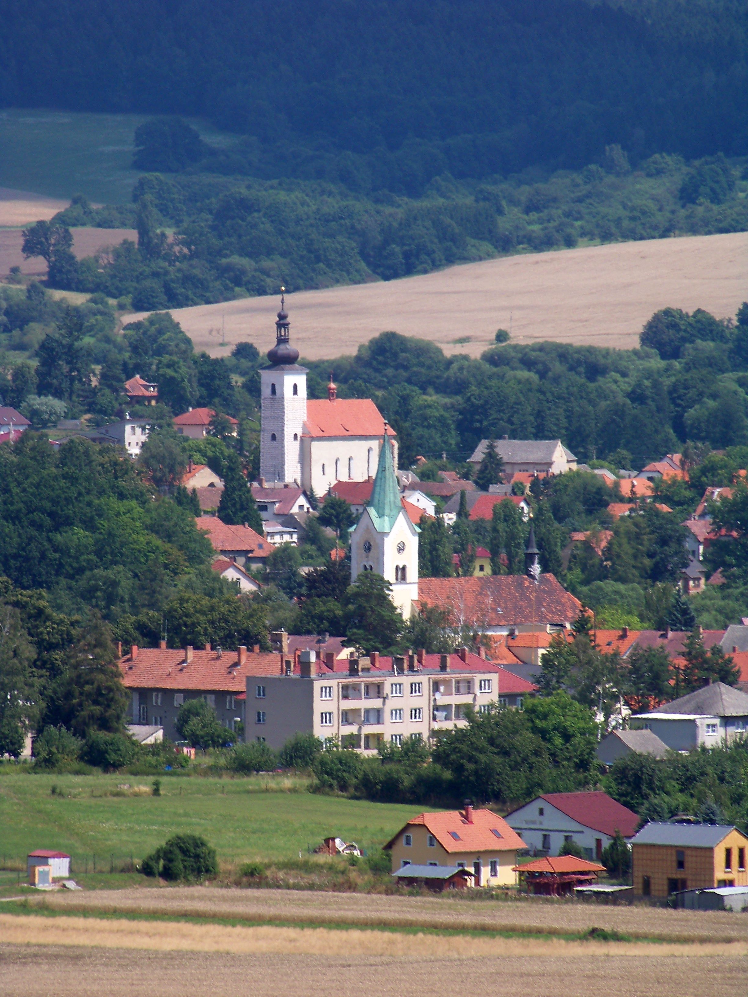 Sedlec-Prčice, Příbram District, Central Bohemian Region, the Czech Republic.